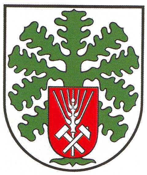 Coat of Arms of Wolsdorf